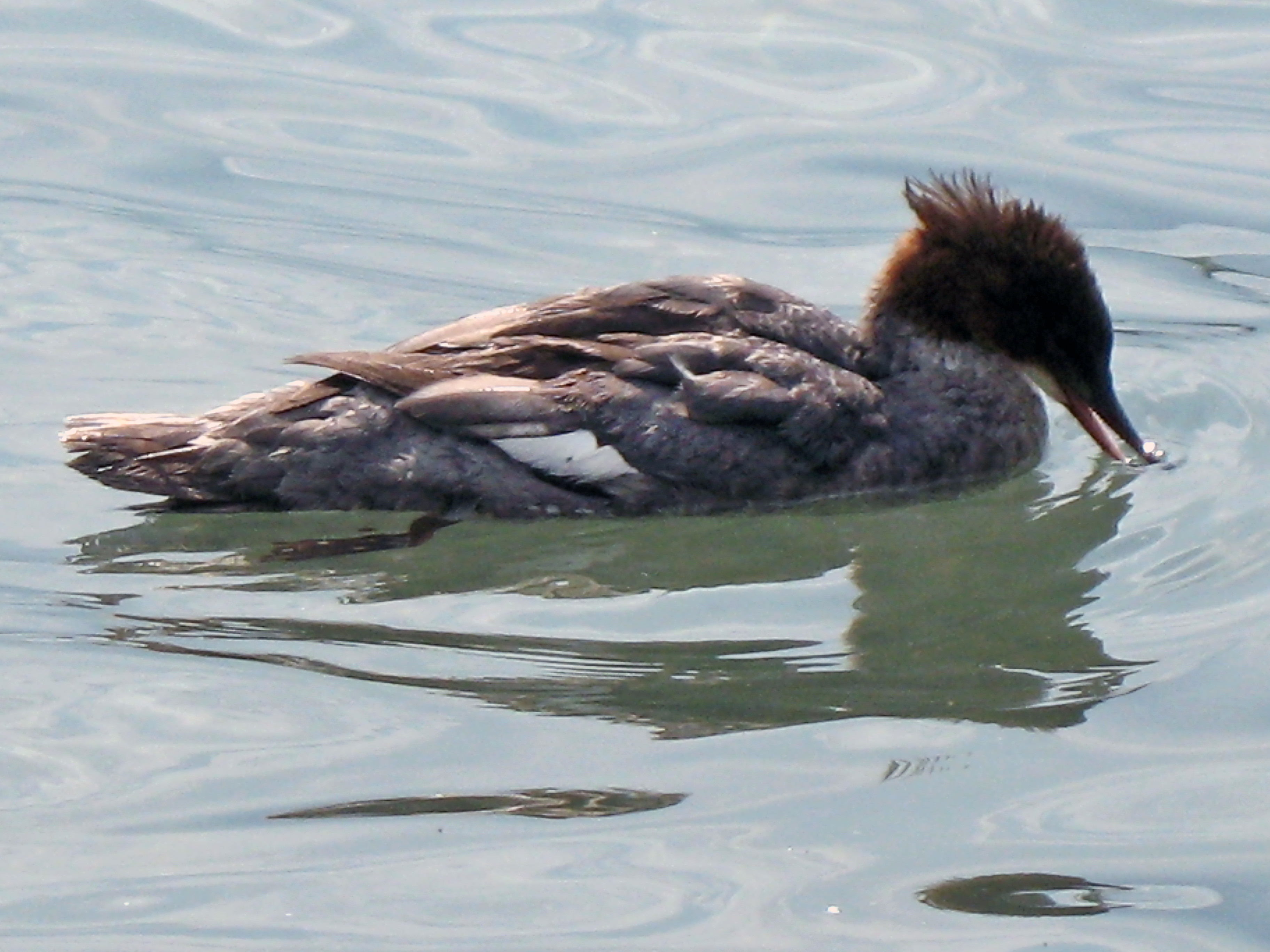 Goosander (Mergus merganser), Thun, Switzerland